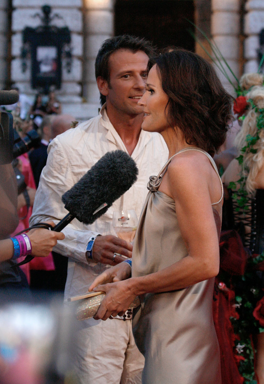 Eva Glawischnig-Piesczek and Volker Piesczek on the red carpet of the Life Ball 2010.